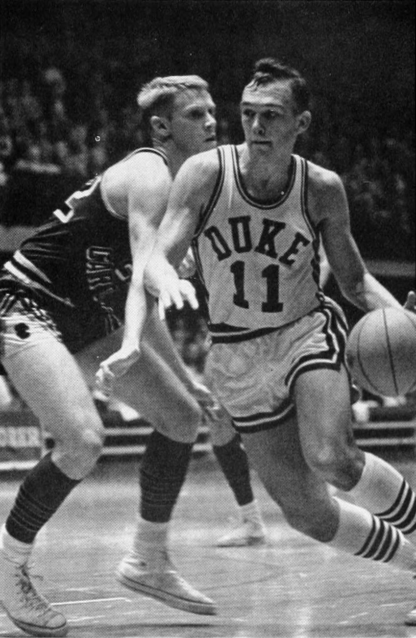 Bob Verga of Duke drives to the basket while a South Carolina player defends. Take during a December 12, 1964 men's basketball game between the Duke Blue Devils and the South Carolina Gamecocks at Duke Indoor Stadium. Scanned from the 1965 edition of the Chanticleer, the yearbook of Duke University